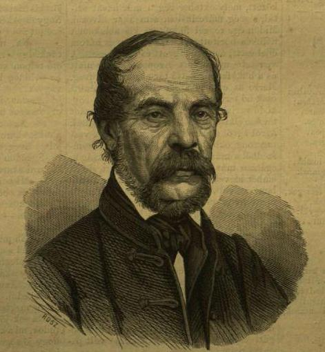 Portrait of Tivadar Botka